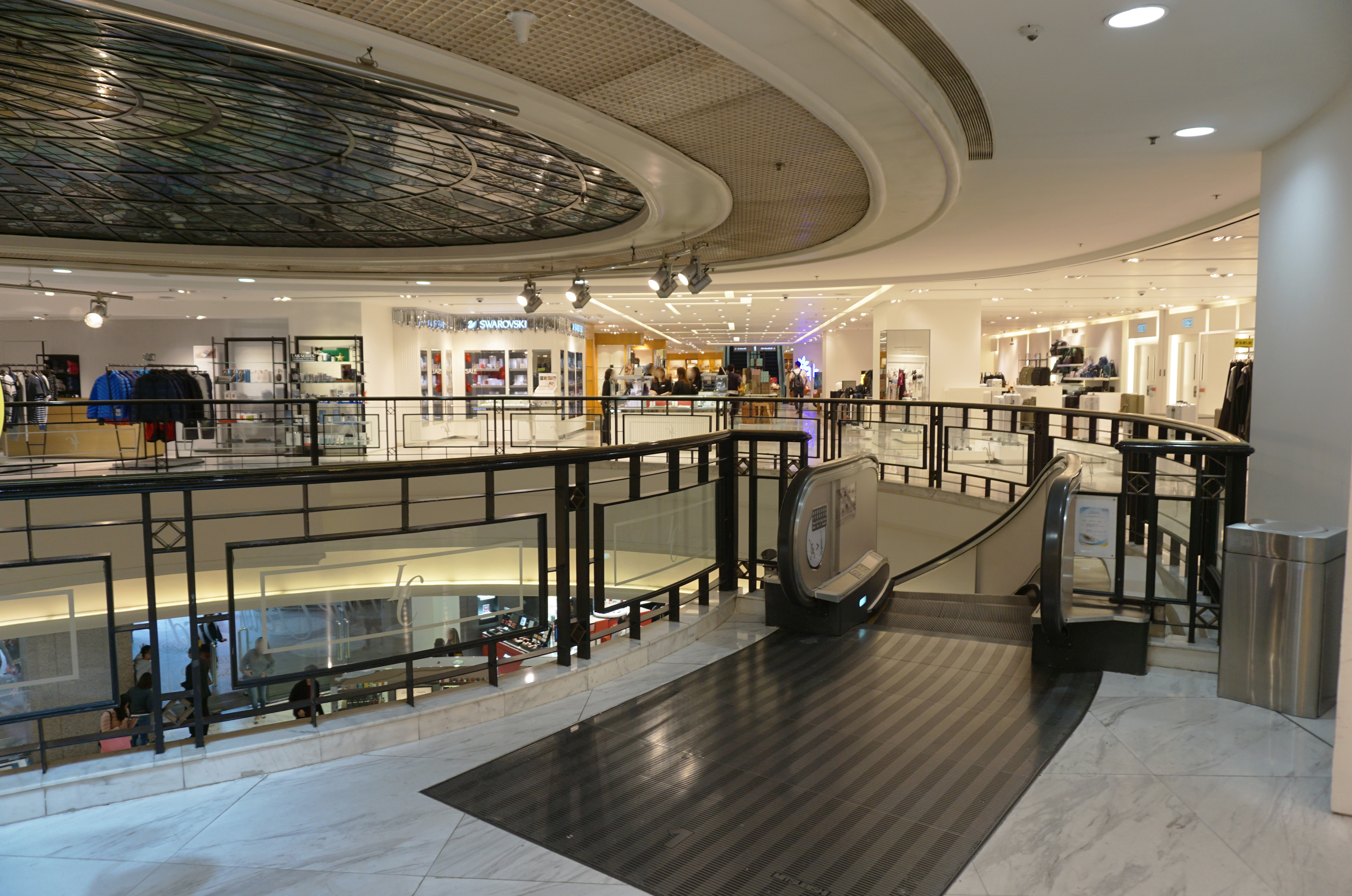 Times Square in Causeway Bay, Hong Kong.